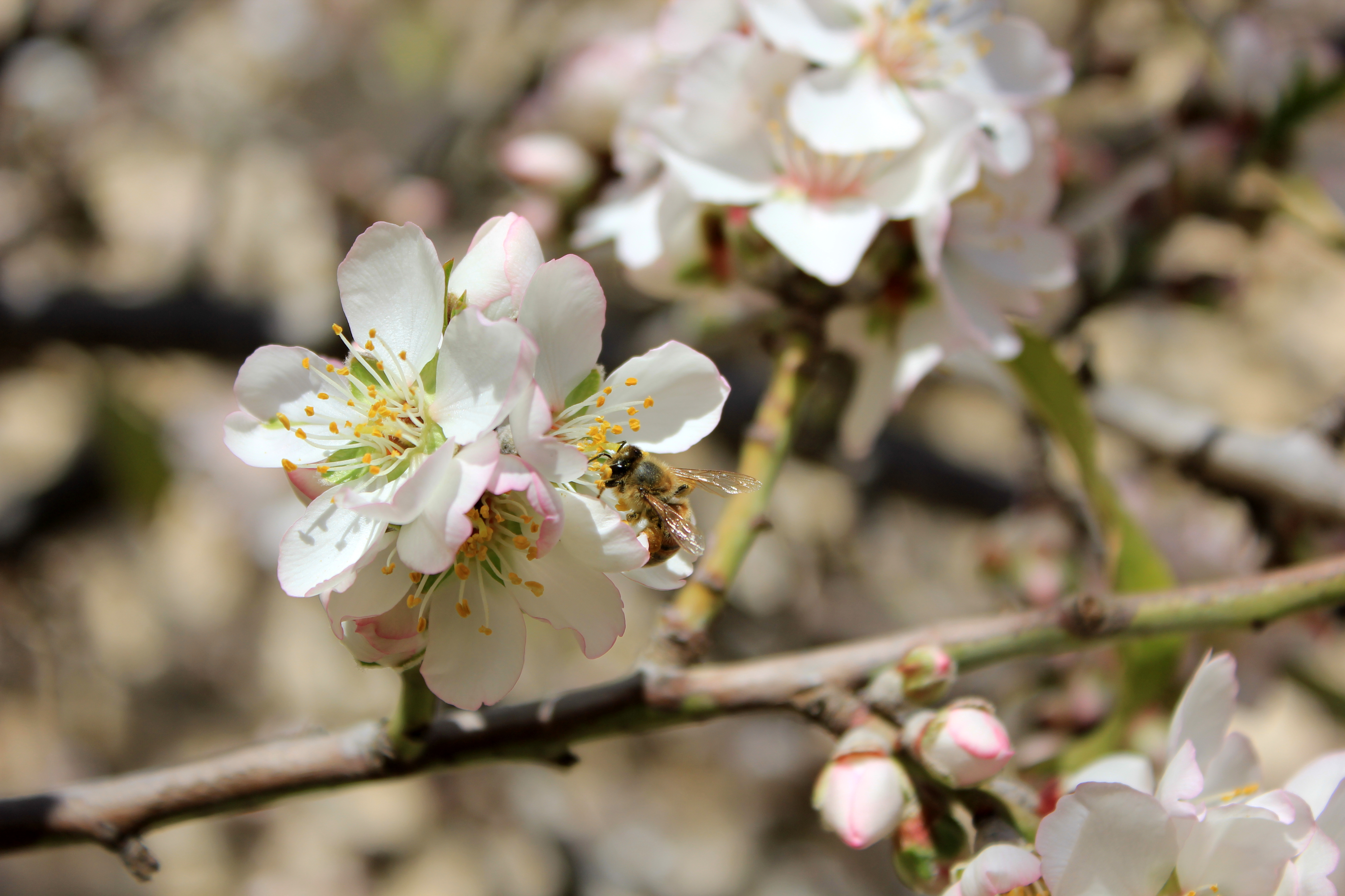 Bees and Almonds, israel